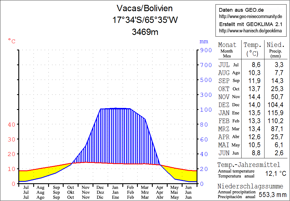 Climate chart in the Walter and Lieth format, metric, °Celsius und millimeters, made with Geoklima 2.1